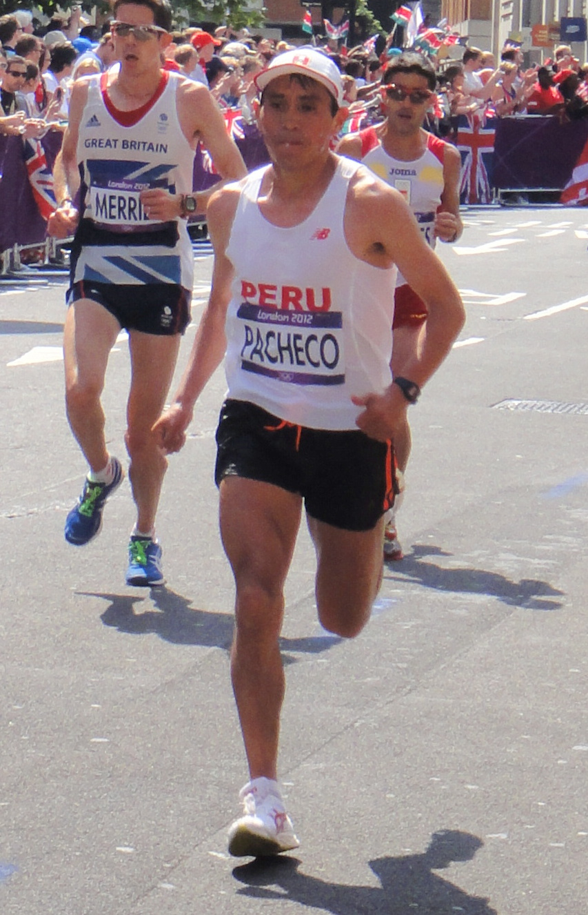 Mark Kenneally (Ireland), Raul Pacheco (Peru), Lee Merrien (Great Britain) and Zatara Mande Ilunga (Congo) - London 2012 Men's Marathon